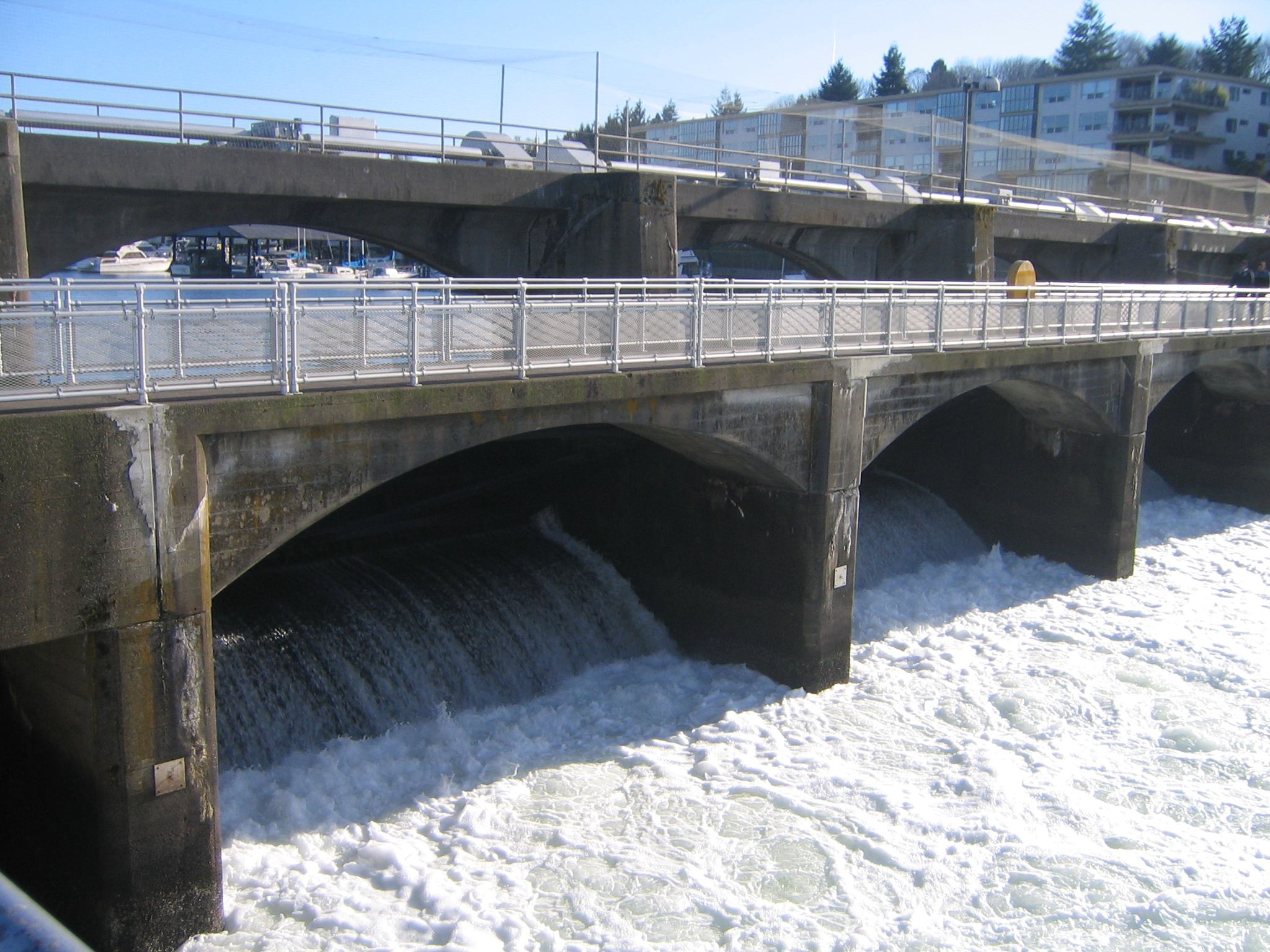 The spillway of the Ballard Locks